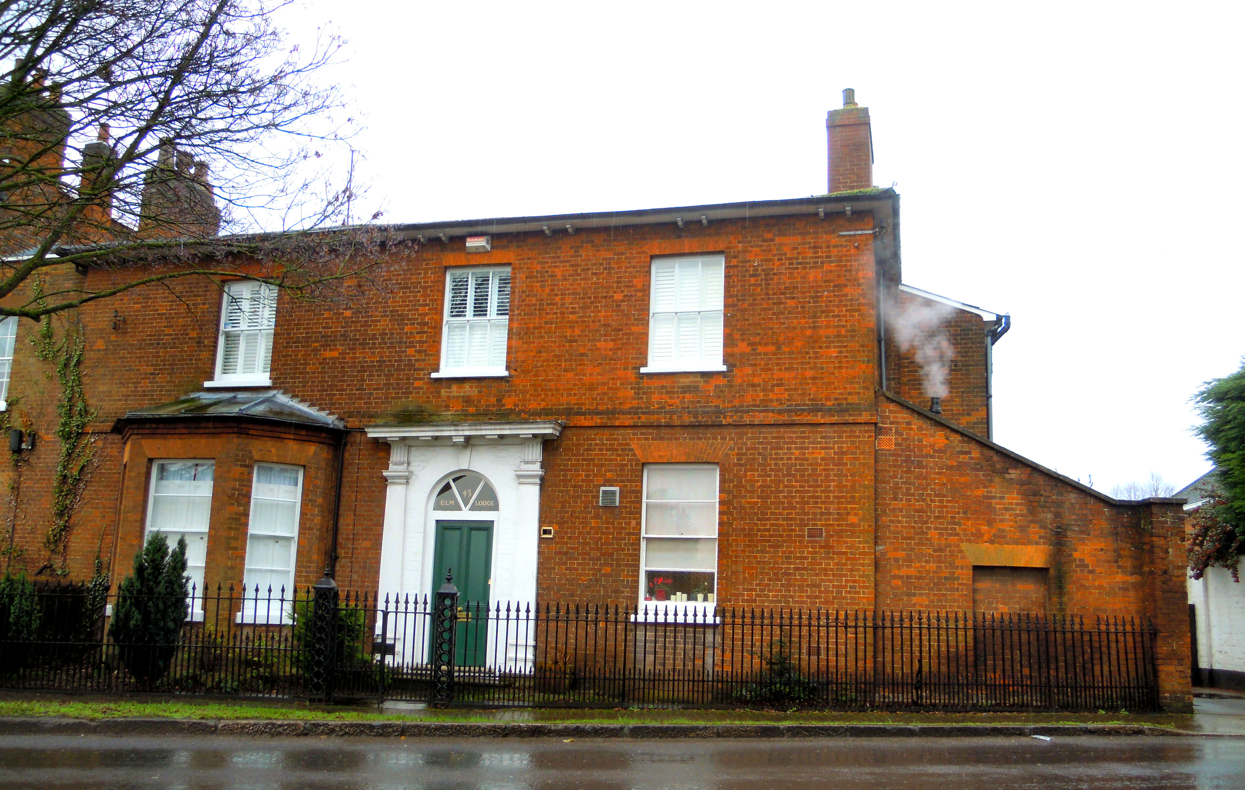 Elm Lodge, the home of Edward Chapman (1804-1880) in Hitchin in Hertfordshire and where he died